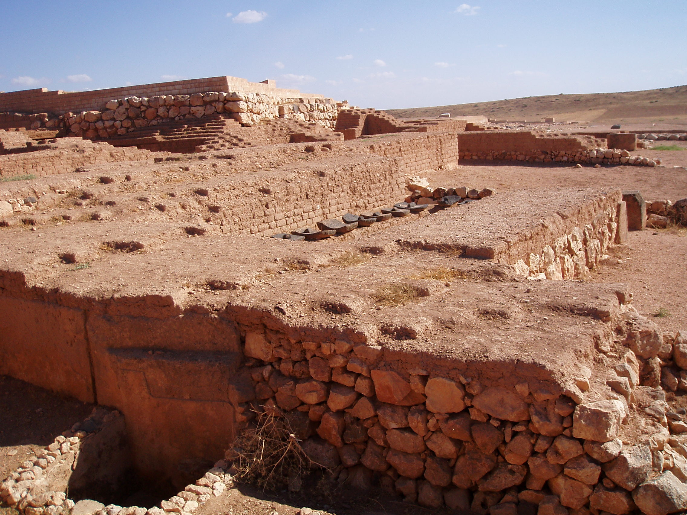 The image shows part of the excavated city of Ebla. Most of the ruins have been given a top layer of new bricks. Some stones used to grind flour are also seen in the picture. Exact location and nature of buildings unknown to uploader.